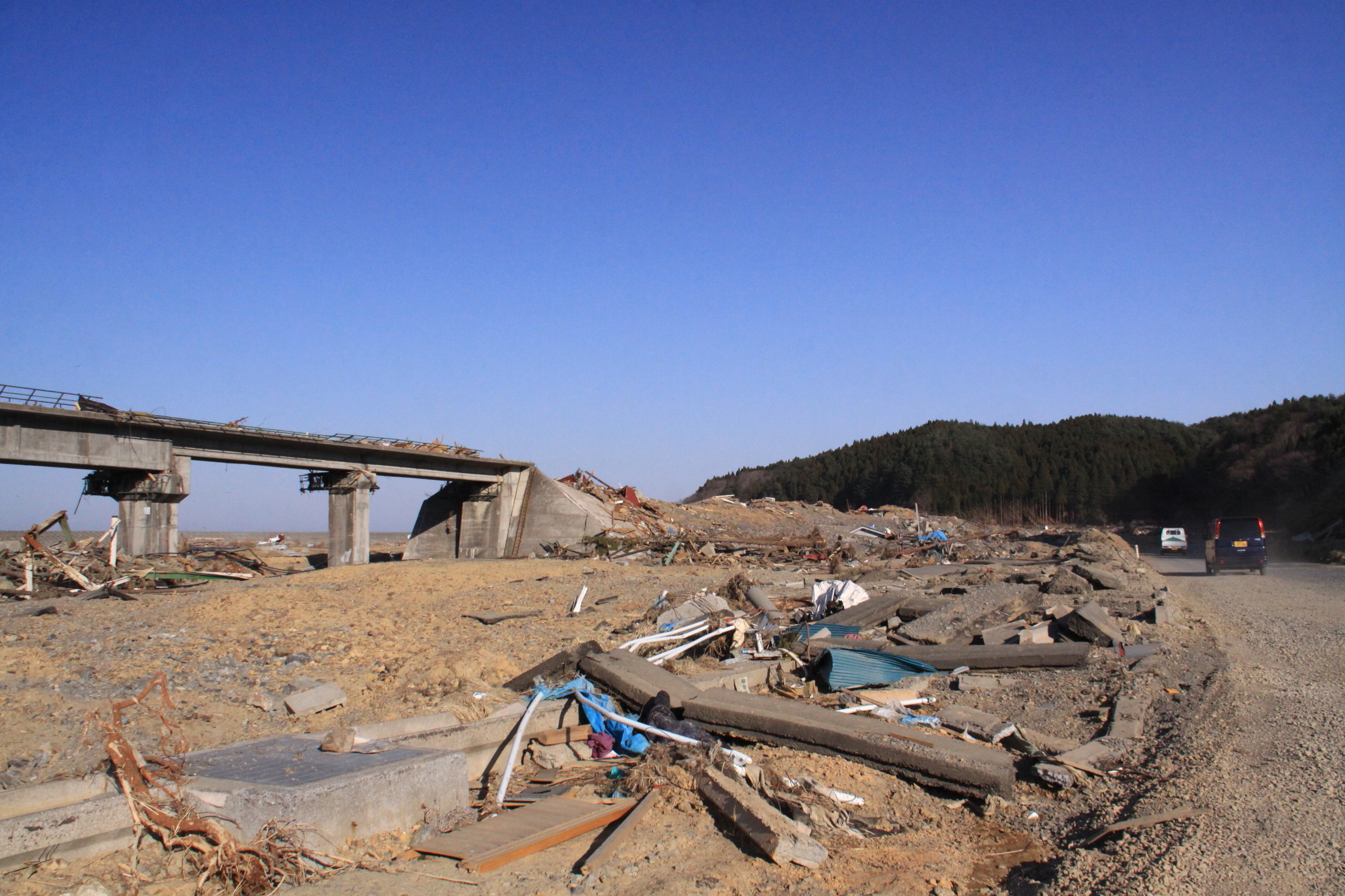 Rikuzen-Koizumi Station in Kesennuma Line at the right of bridge was washed away by Tsunami in Kesennuma, Miyagi.